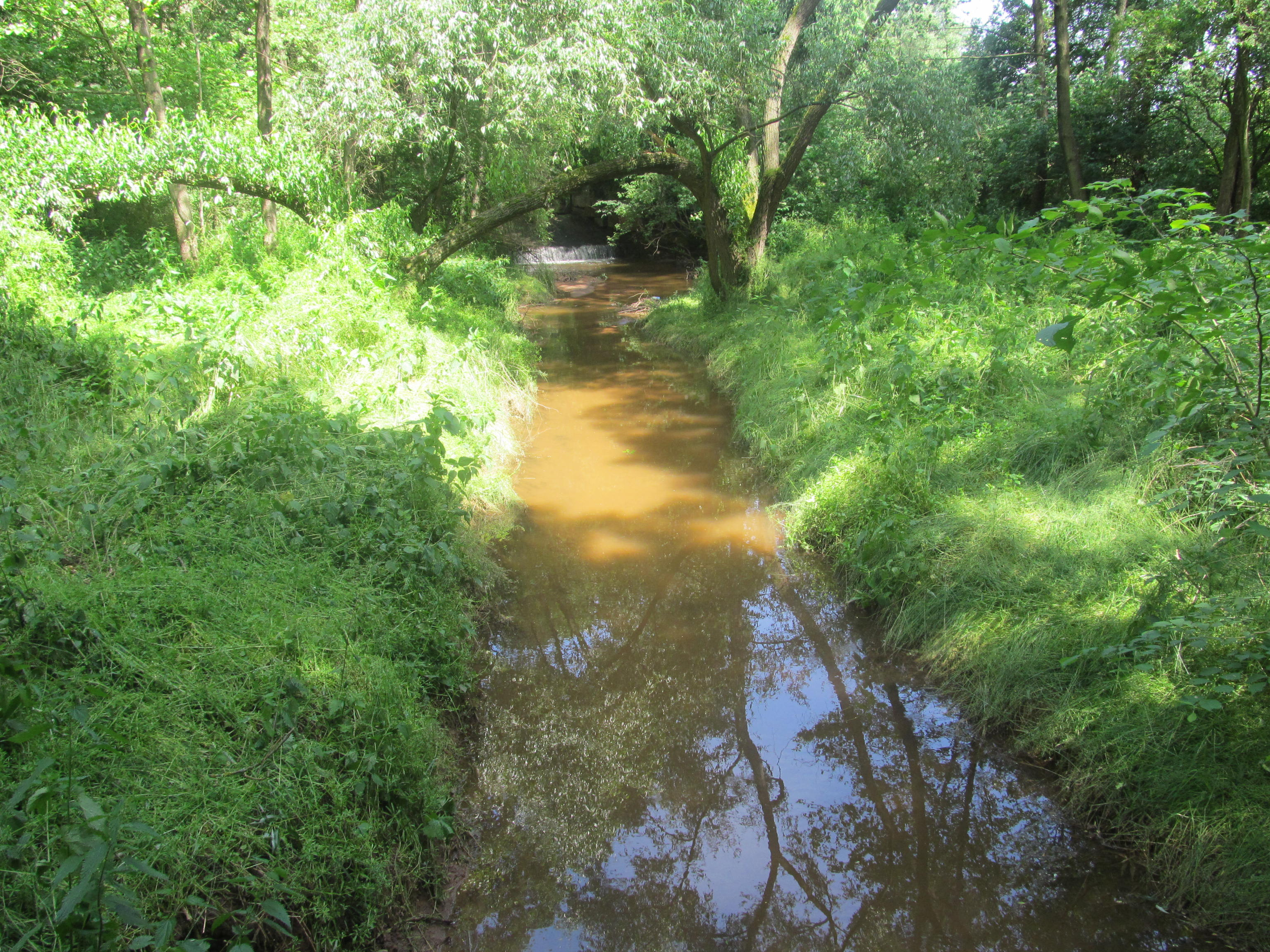 Hasina creek by Lipenec